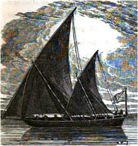 Pattamar